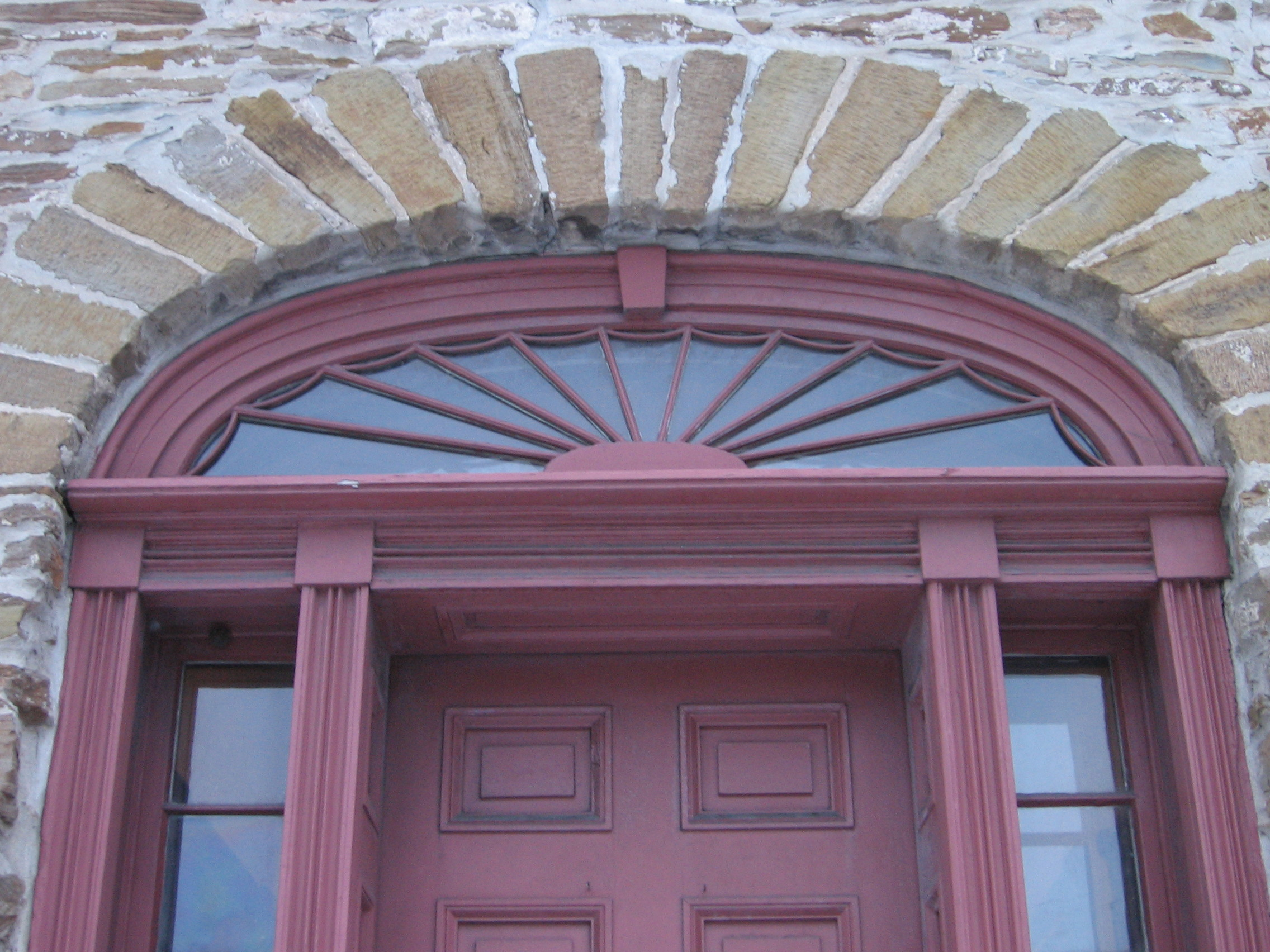 Image created and copyright held by Yoho2001 Toronto, ON. If used, please attribute the image as such.